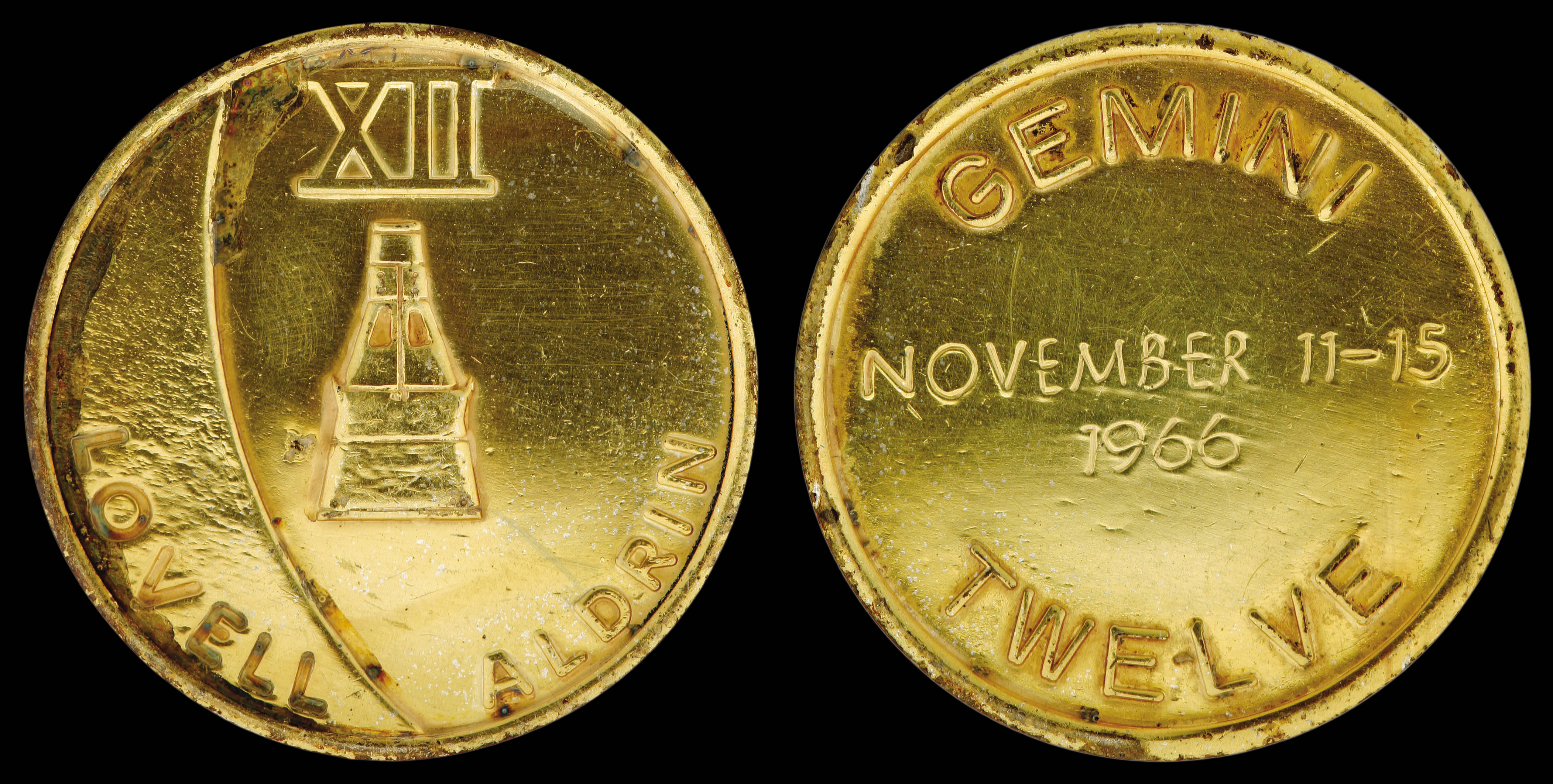 Gemini 12 Flown Fliteline Gold-Plated Sterling Silver Medallion(669-25294)